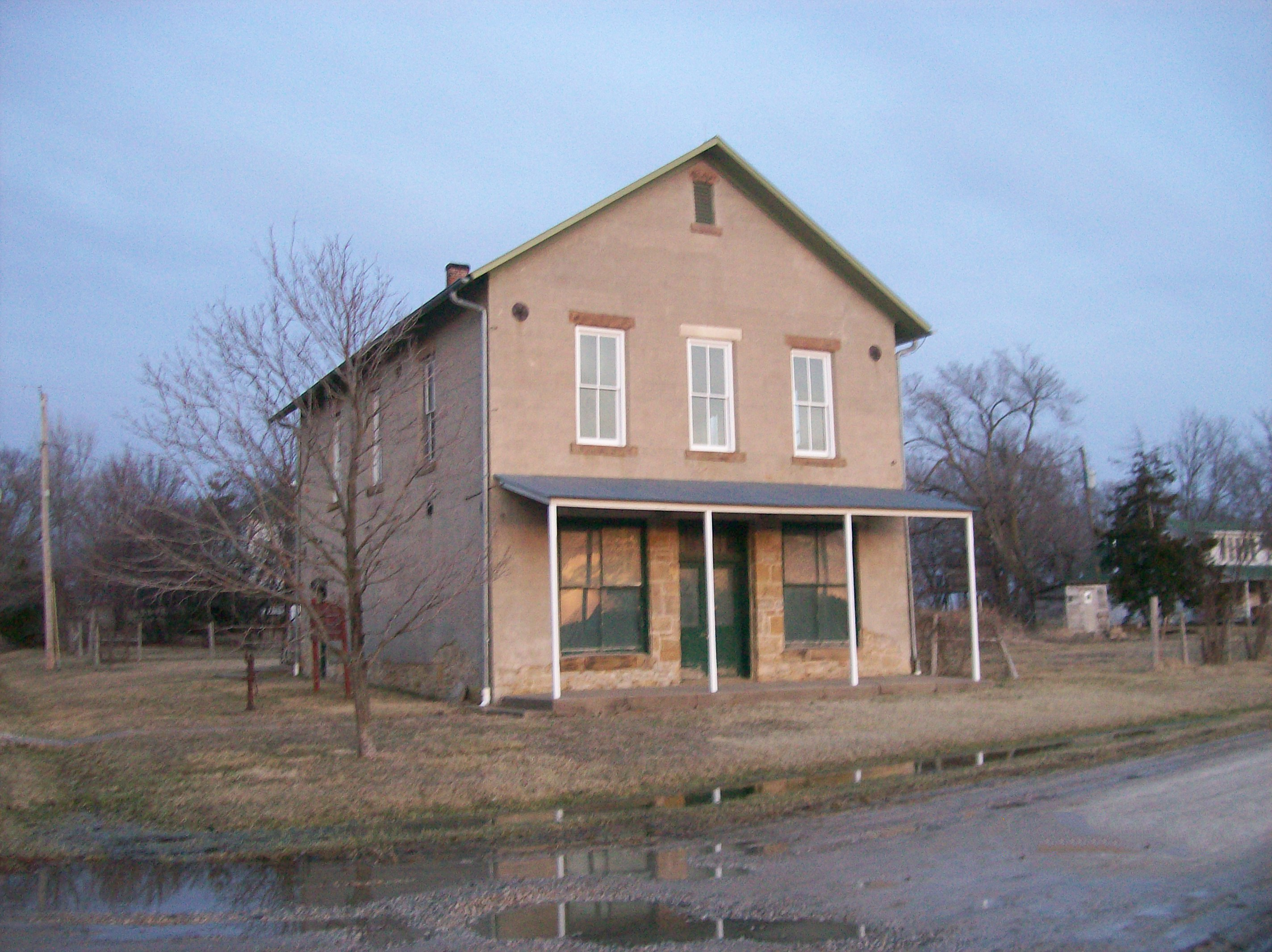 A picture of the Vinland Grange, built in 1884.